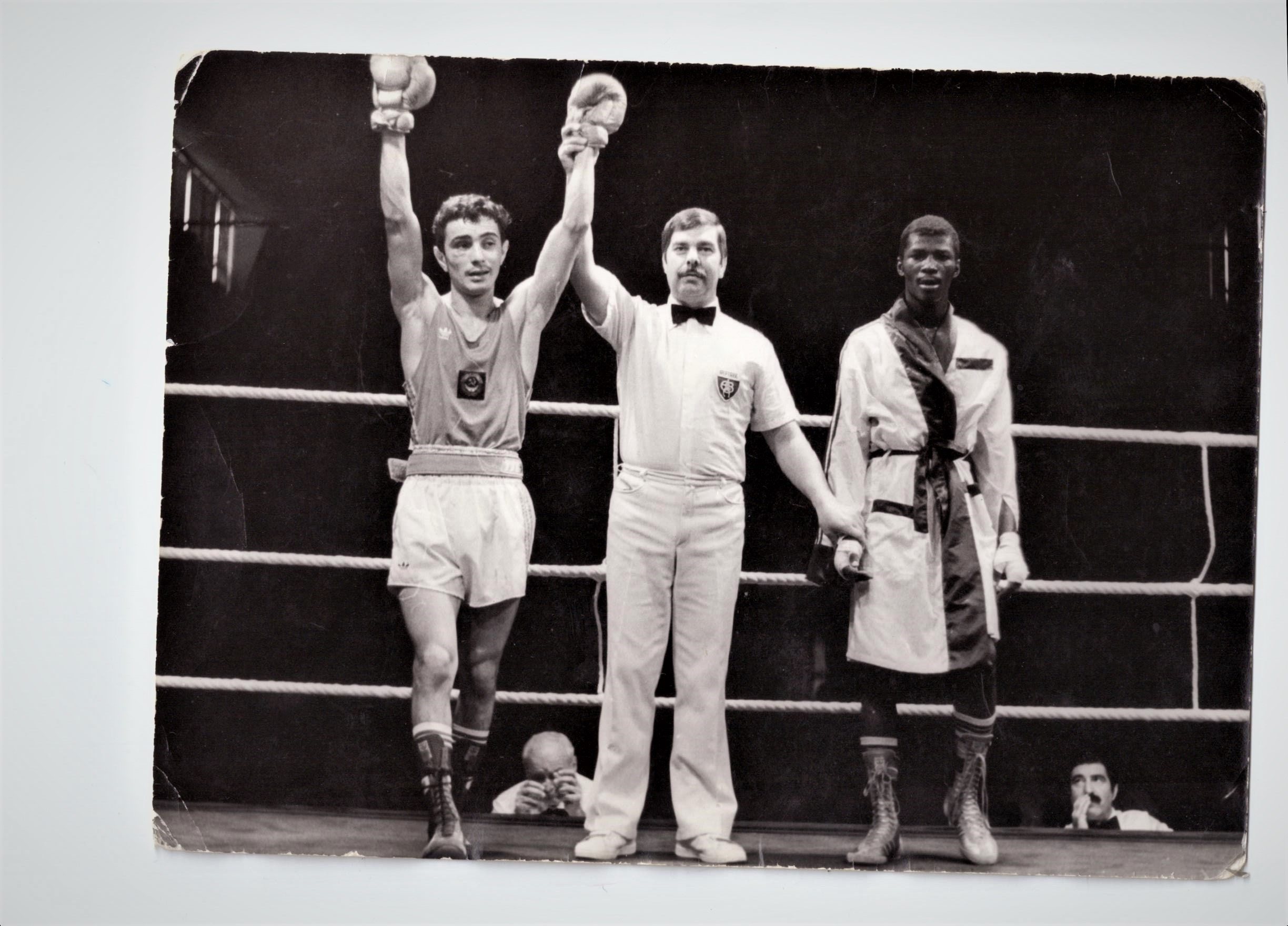 Garii Akopian's victory over the Cuban boxer